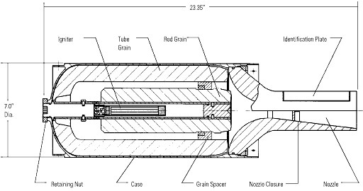 Hellfire missile motor drawing. Quote from site: 101132 10/97 Approved for release to the public domain.